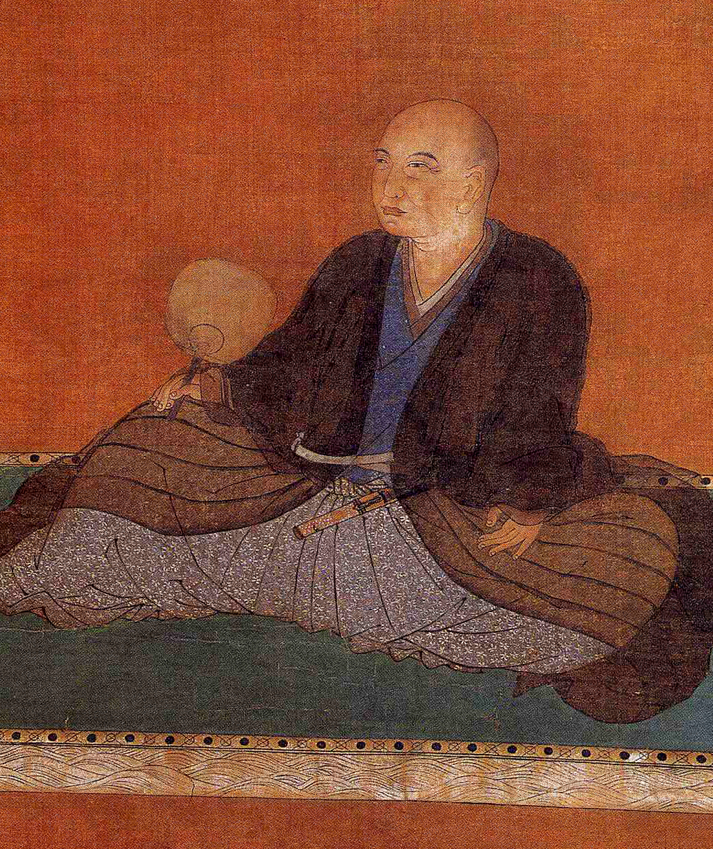 A Portrait of Yūsai Hosokawa, Colors on Silk